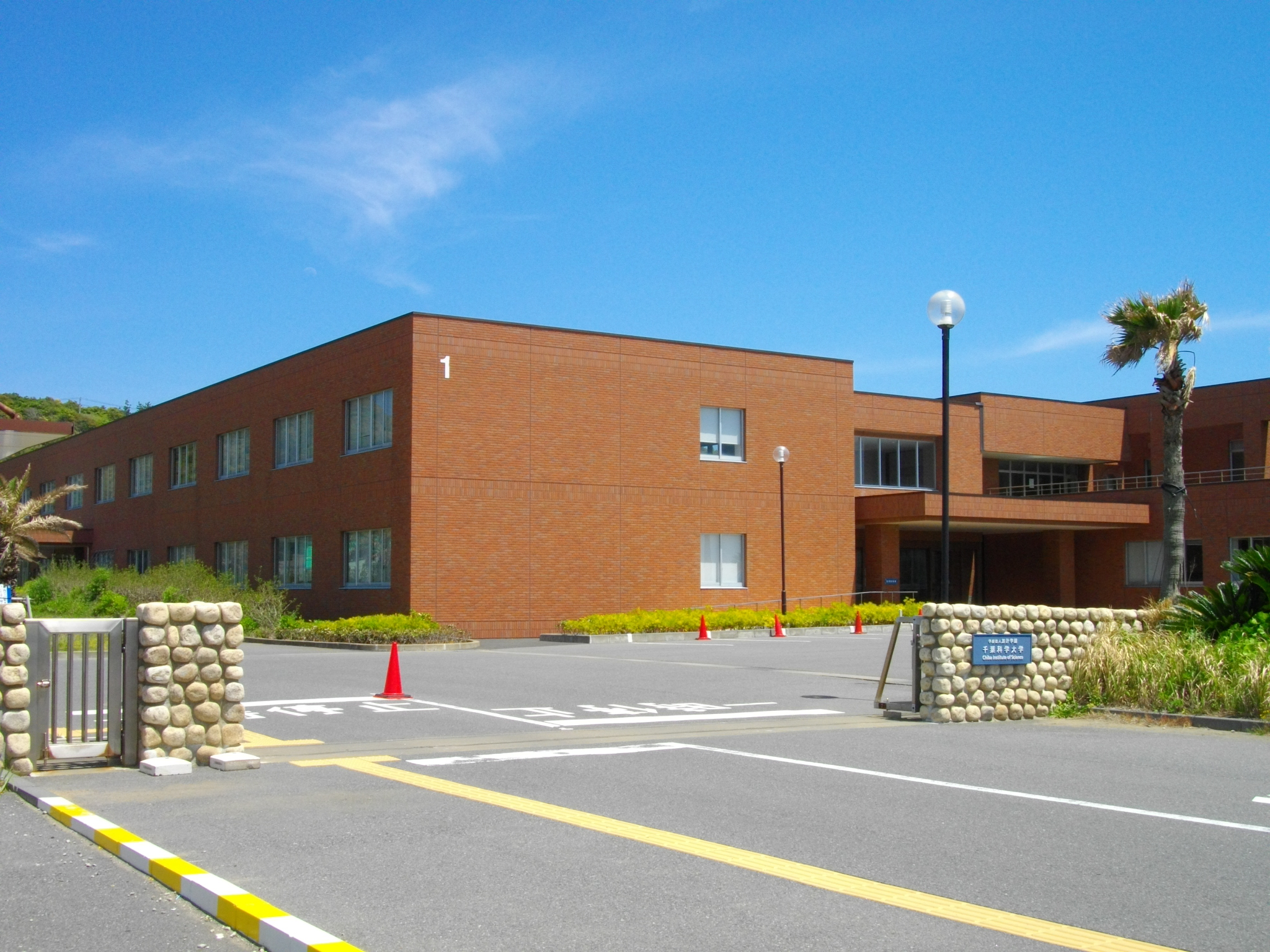 Chiba Institute of Science Headquarters Campus